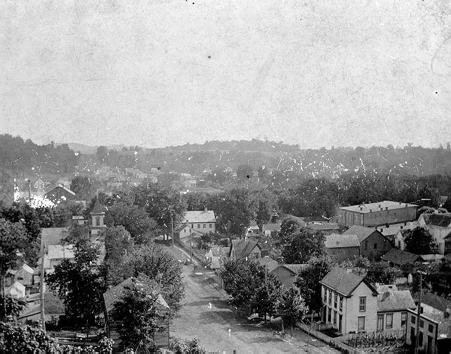 Corydon, Indiana in 1896. Unknown author. Image from Indiana Historic Society.